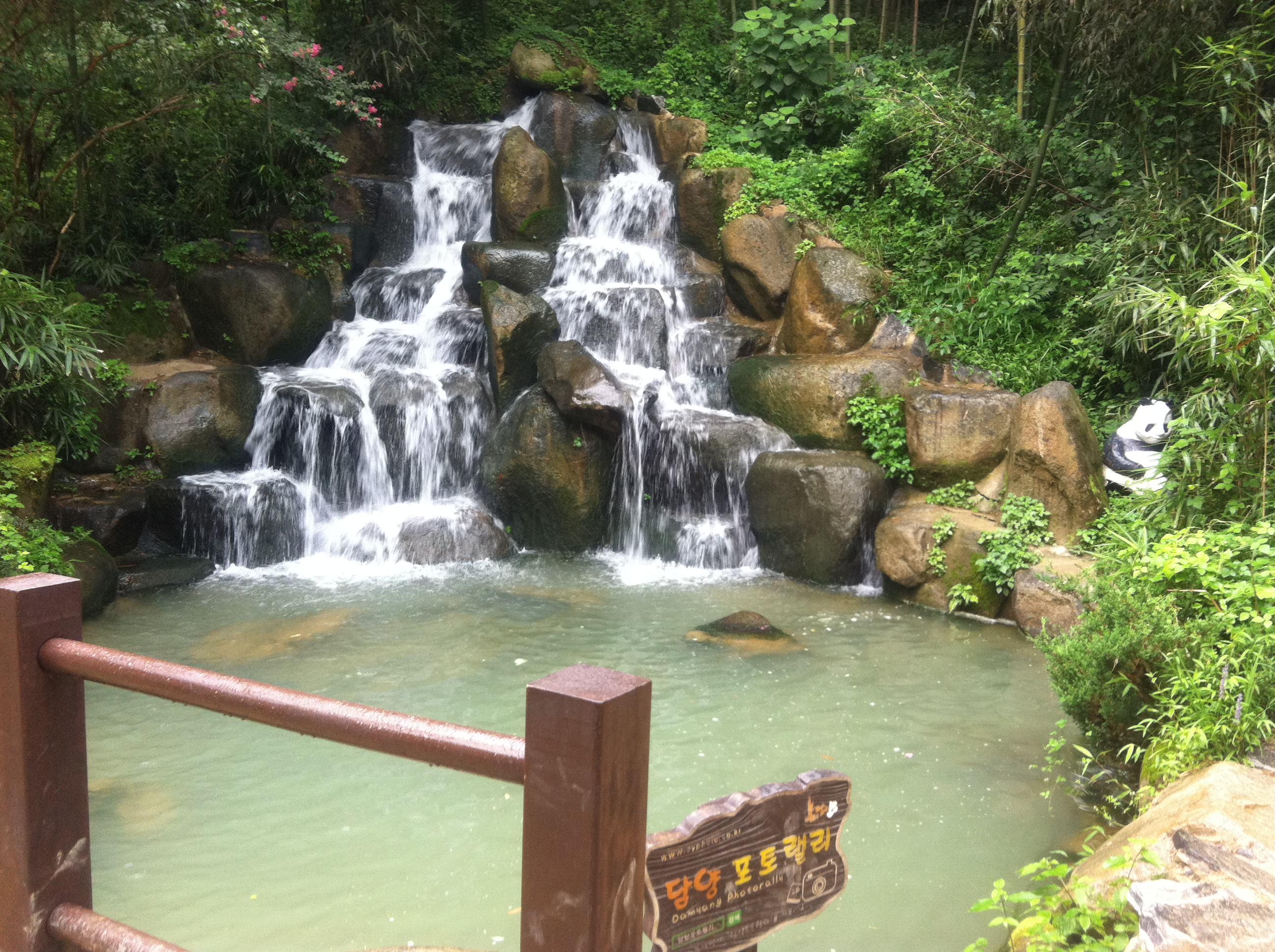 Juknokwon(bamboo forest) in Damyang country